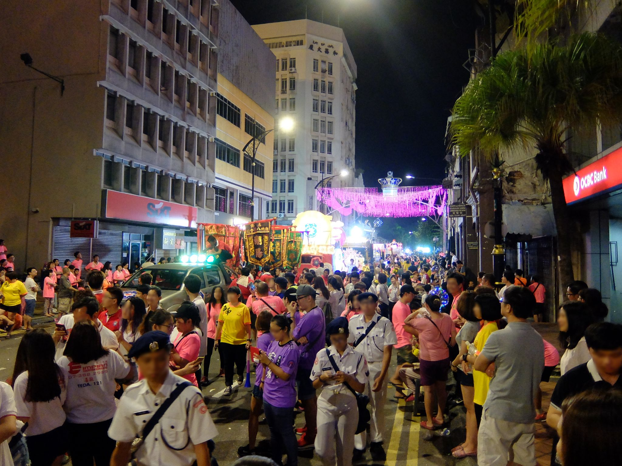 Chingay Johor 2018 @ Johor Bahru, Johor, Malaysia